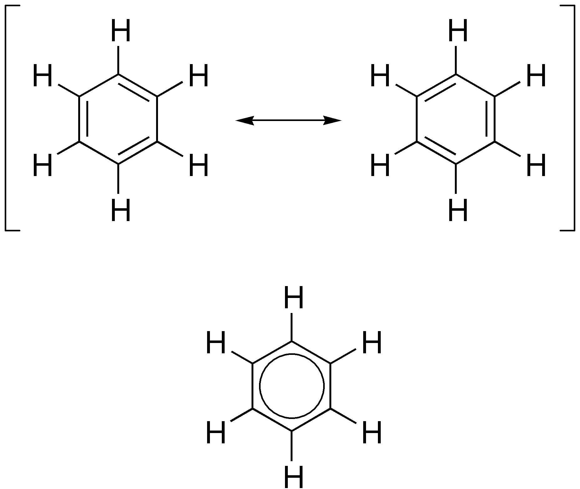 resonance structures of benzene